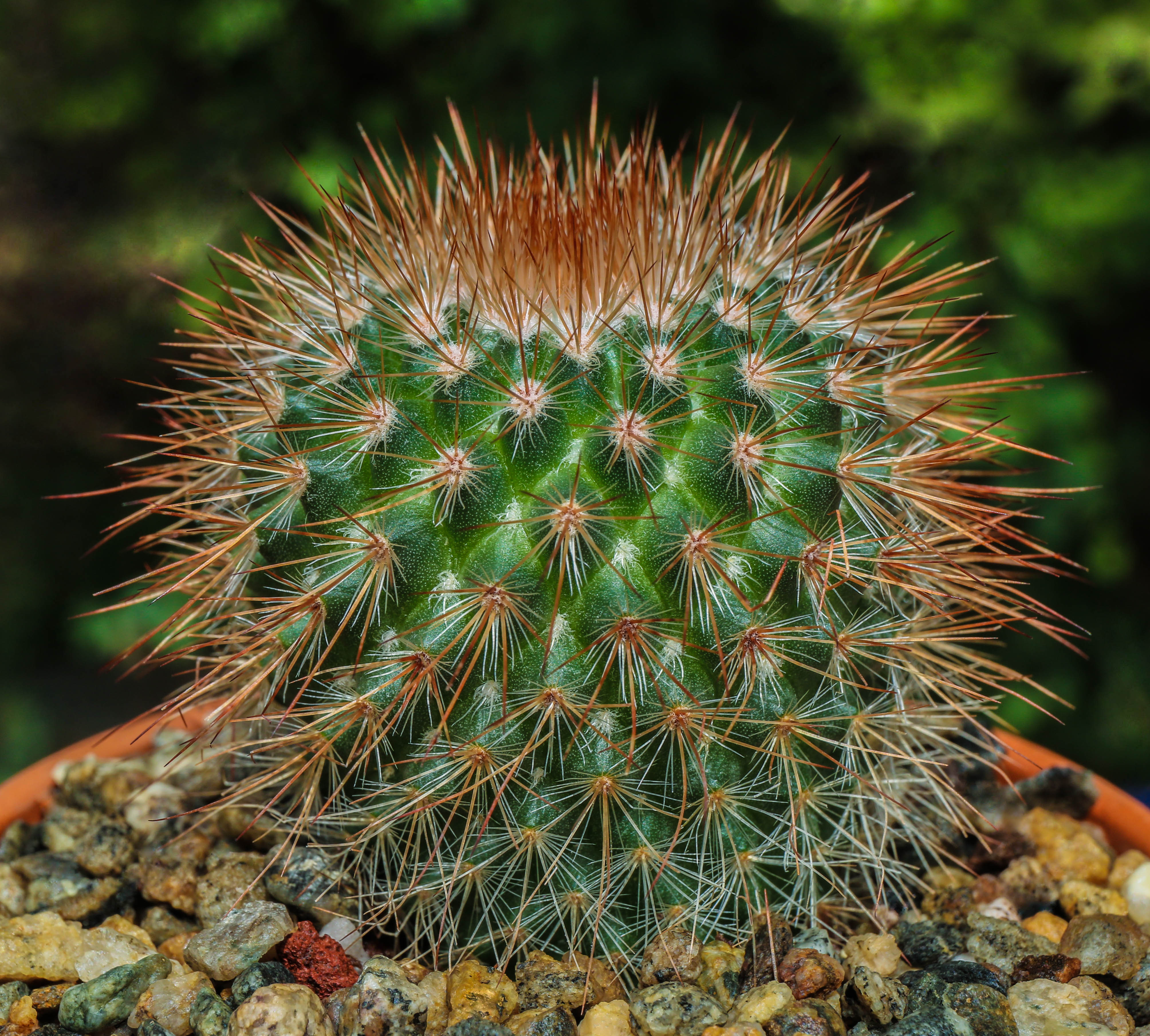 Mammillaria spinosissima var. 'rubrispina' ('Super Red')